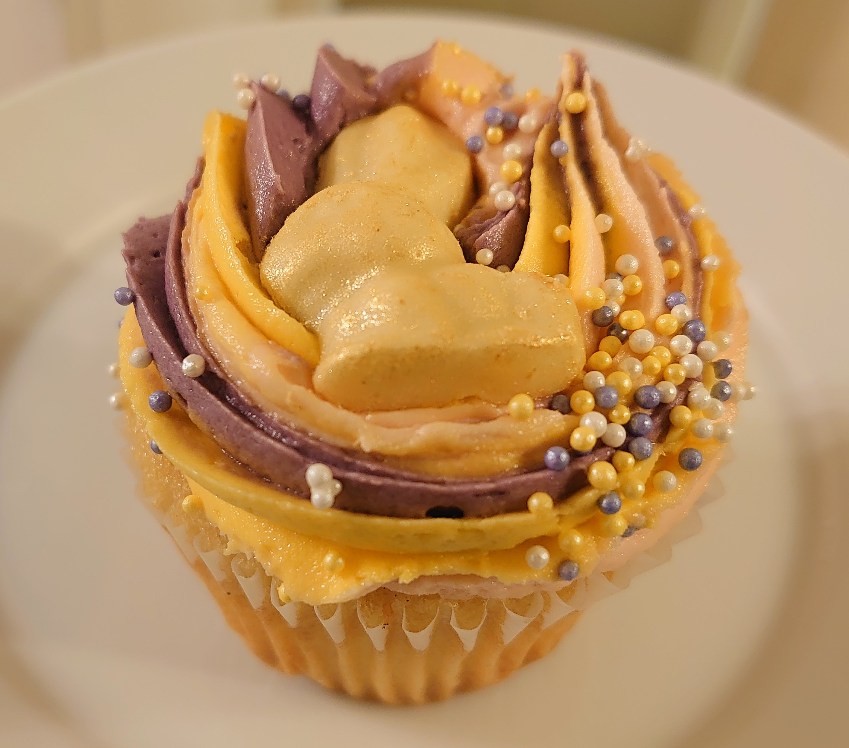 Easter cupcake